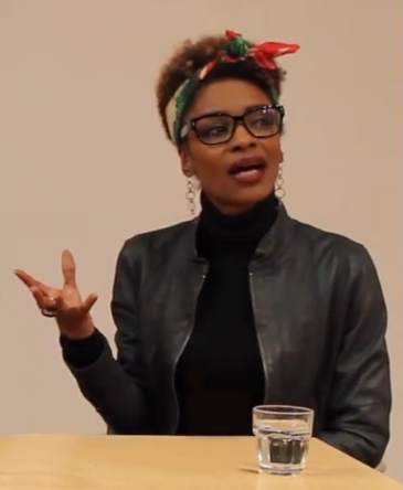 Sylvana Simons (Bij1) during a meeting in Amsterdam, 5 Jan. 2018